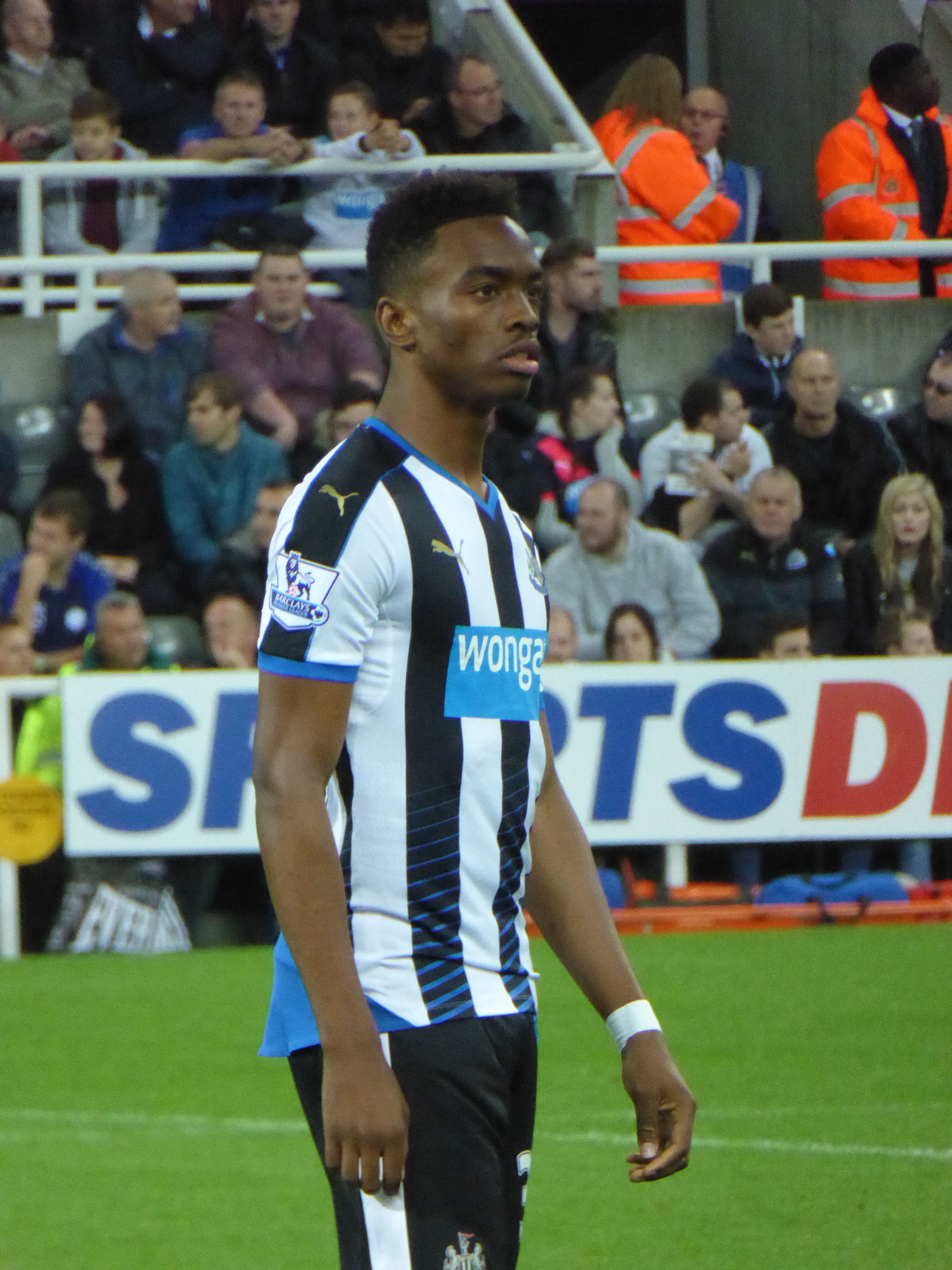 Newcastle United vs Sheffield Wednesday (0-1), Capital One Cup Third Round, St James' Park, Newcastle upon Tyne, Tyne and Wear, England, September 2015